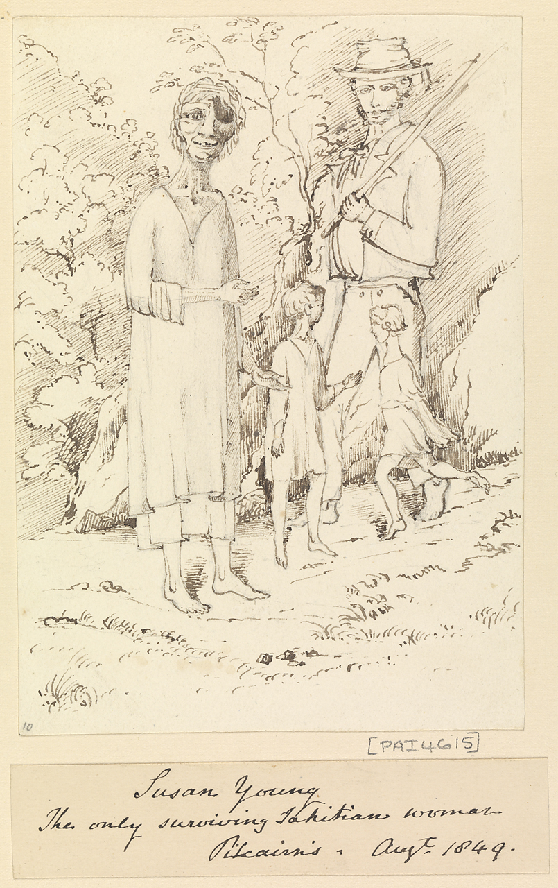 'Susan Young, The only surviving Tahitian woman, Pitcairn's [Island], Augt 1849'.